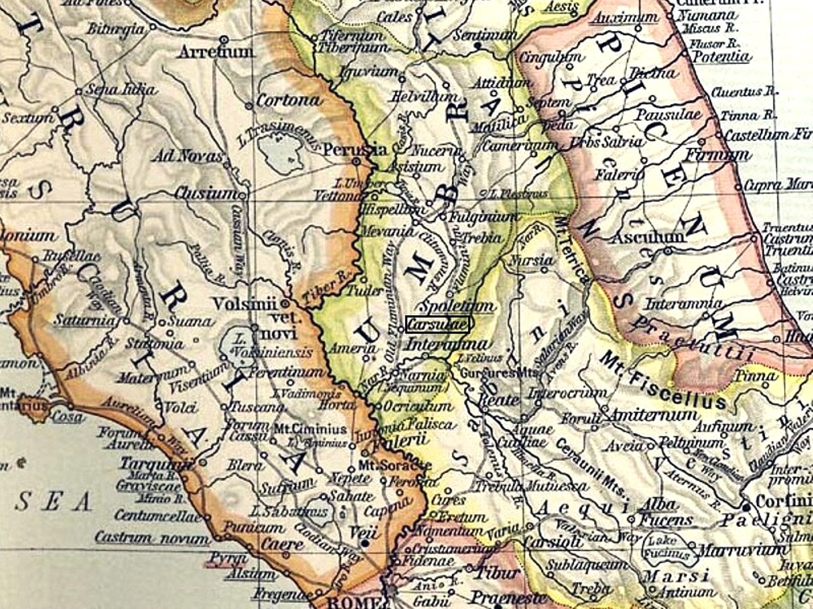 Umbria from Reference Map of Ancient Italy, Northern Part Historical Atlas by William R. Shepherd.